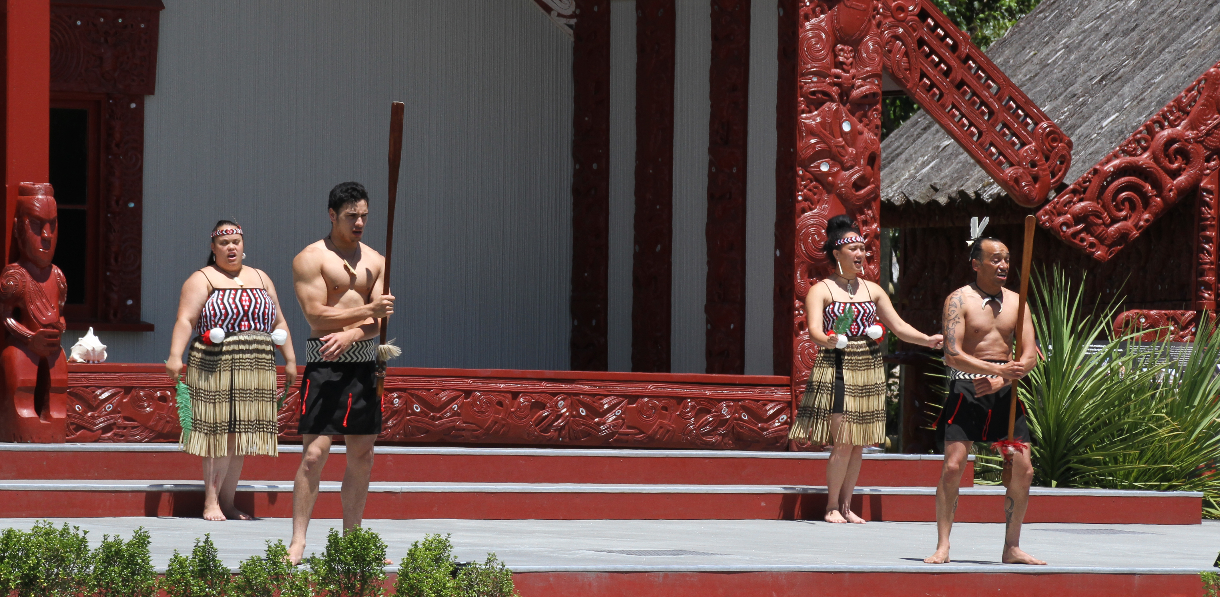 Maori Greeting 3